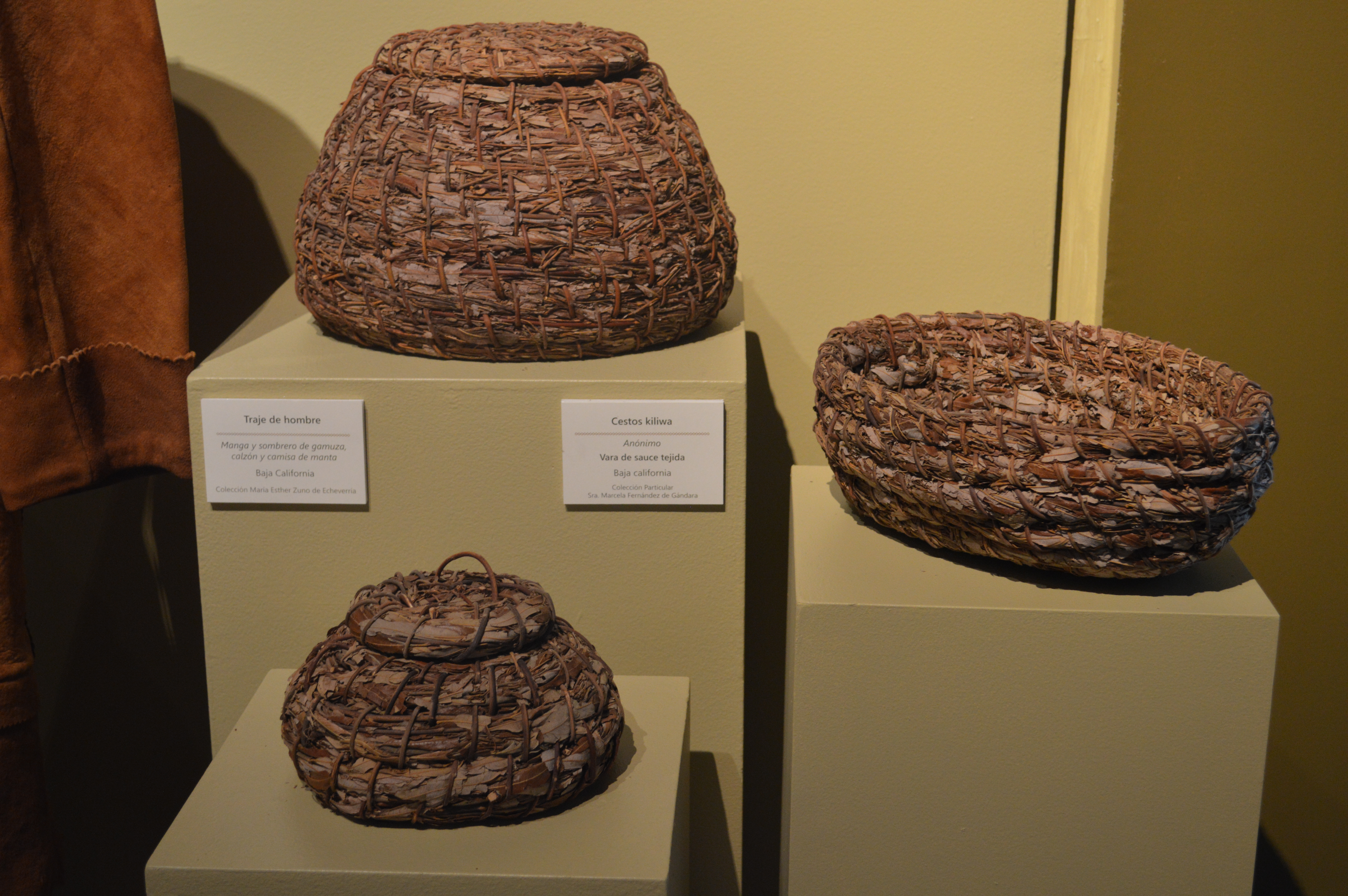 Kiliwa baskets of willow branches from Baja California to the temporary exhibit El Norte, su materia y su artesania at the Museo de Arte Popular in Mexico City